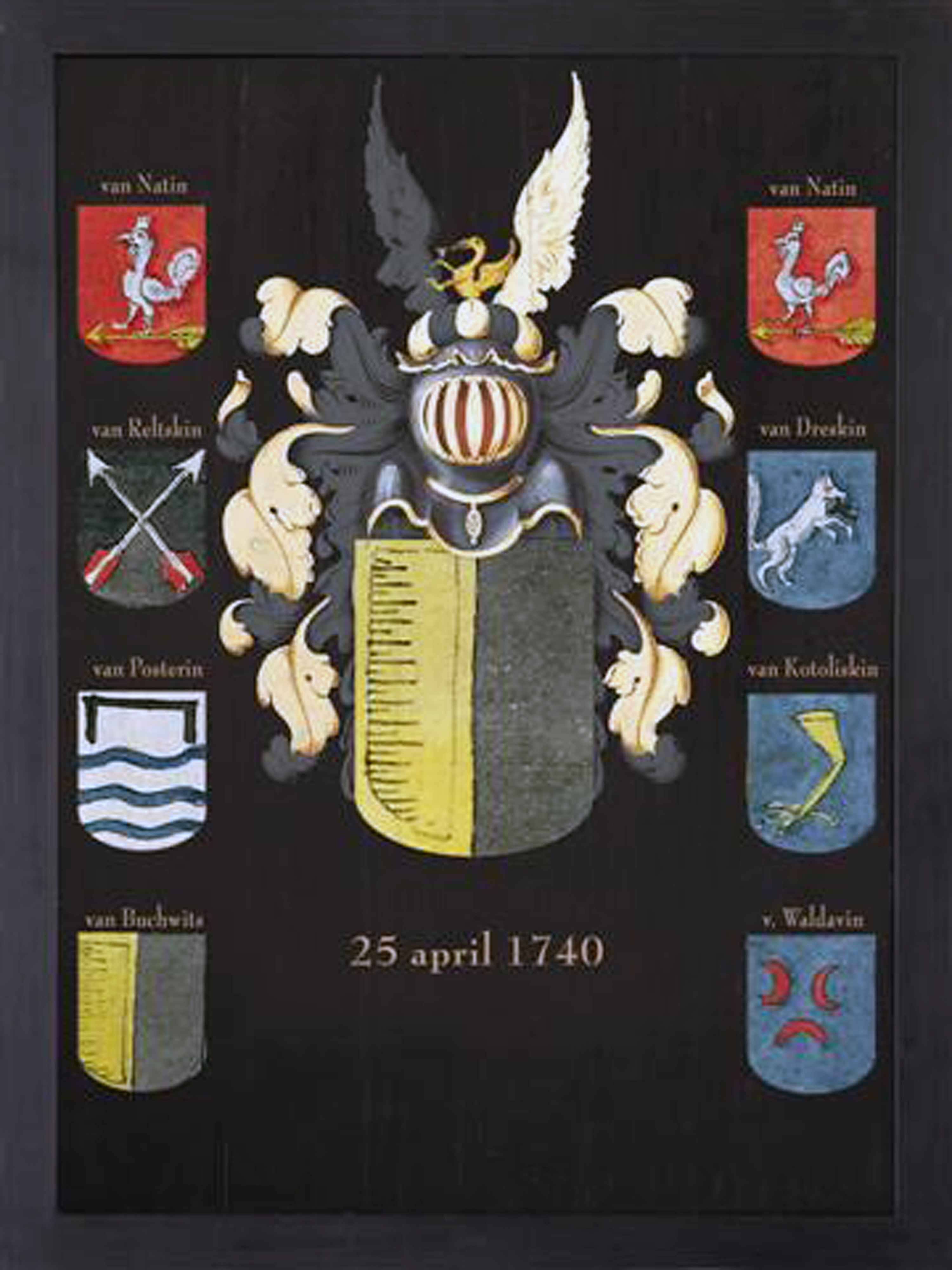 Death-panel from church "Grote Kerk Breda", Kerkplein 2, Breda, NL